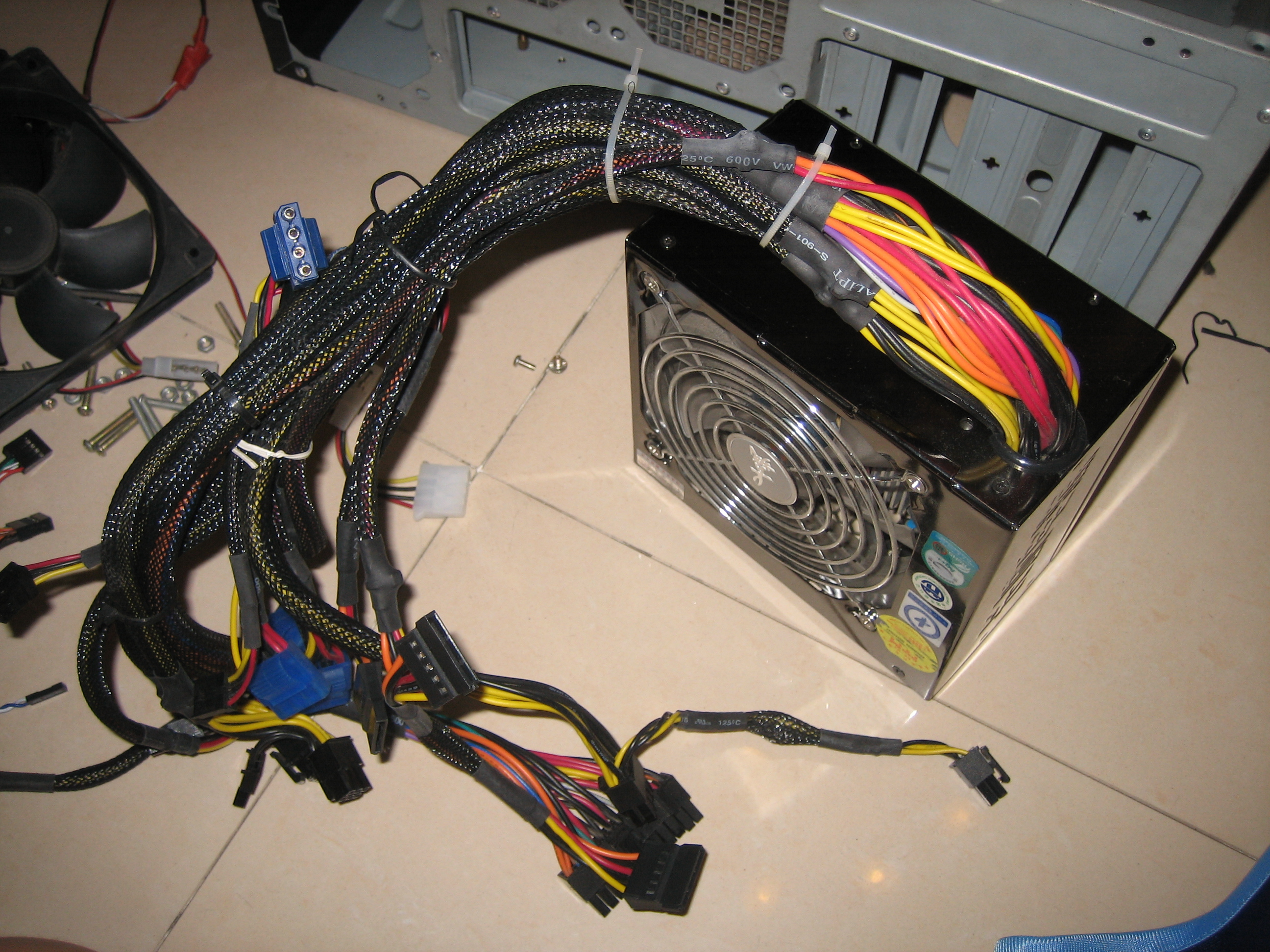 A Power supply unit, include cable and connector.